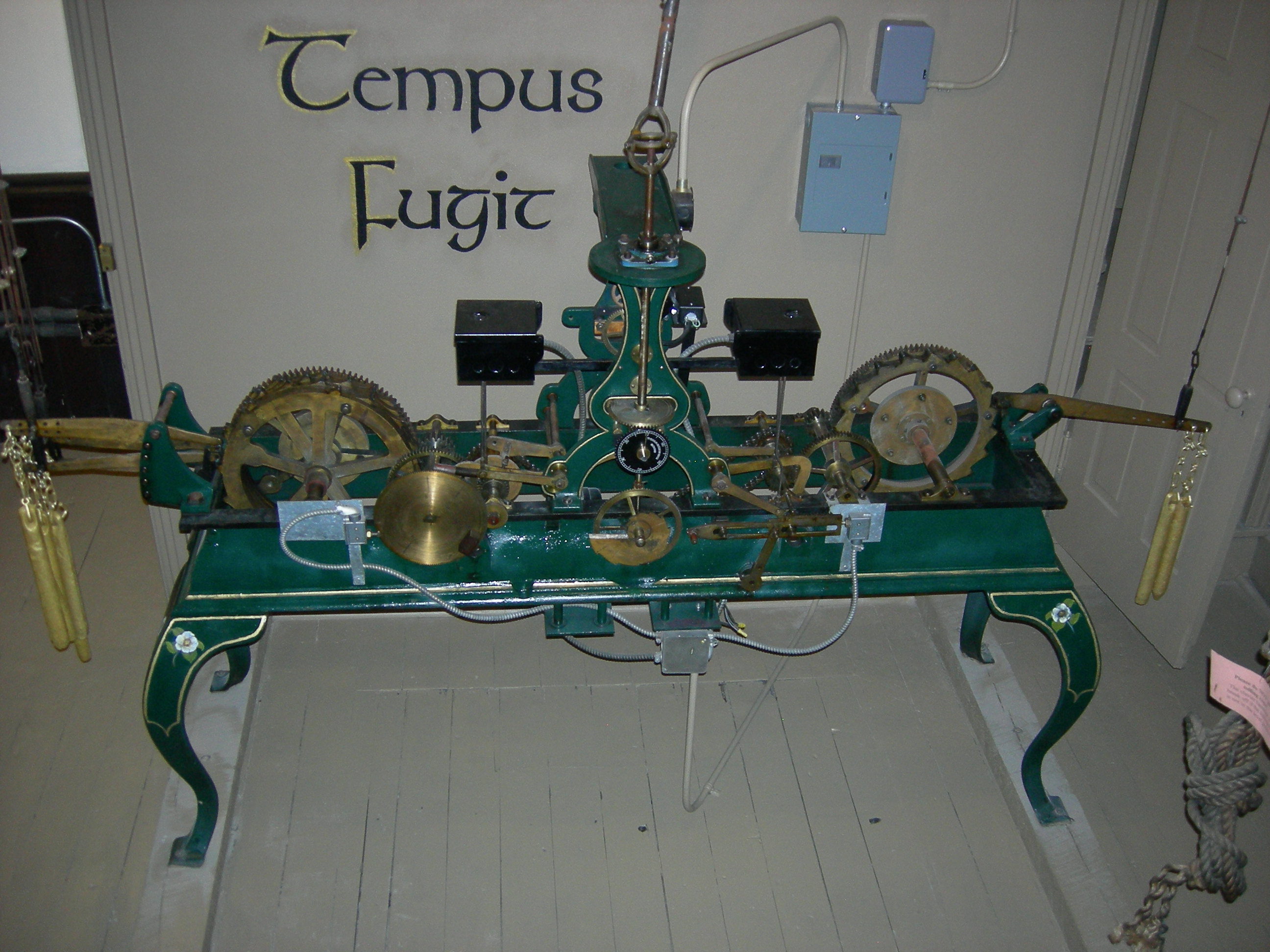 E. Howard Tower Clock 281 - First Tower Clock in the USA to sound the Cambridge Quarters, Trinity Episcopal, Williamsport,PA